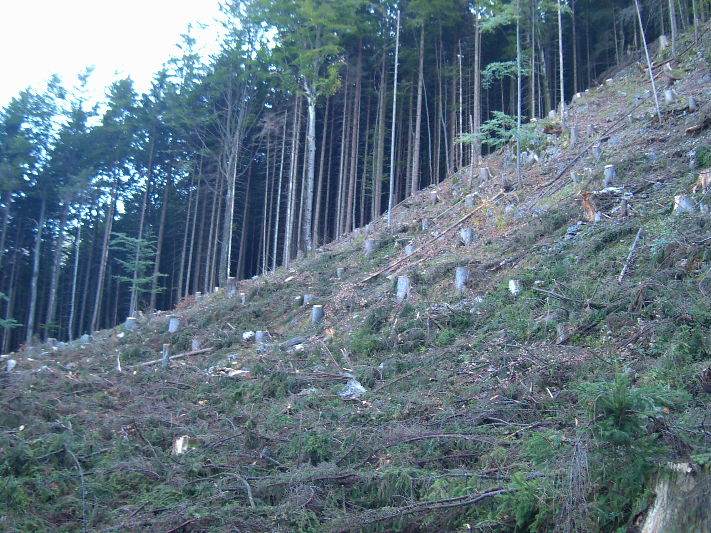 Clearcutting in German alps near Kreuth (Upper Bavaria).